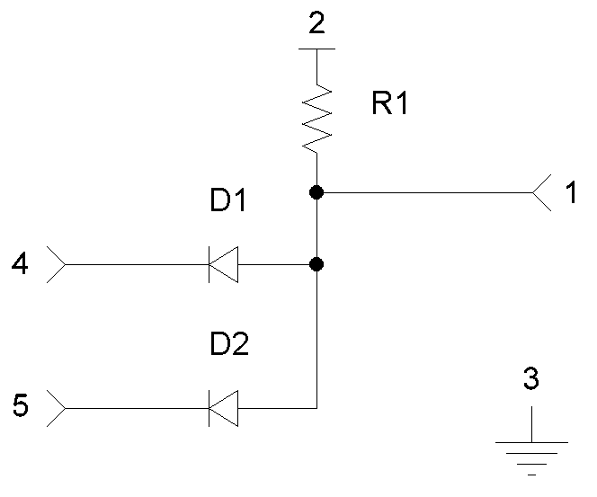 2-input AND gate using diode logic. Drawn by Heron2 using Orcad Capture.